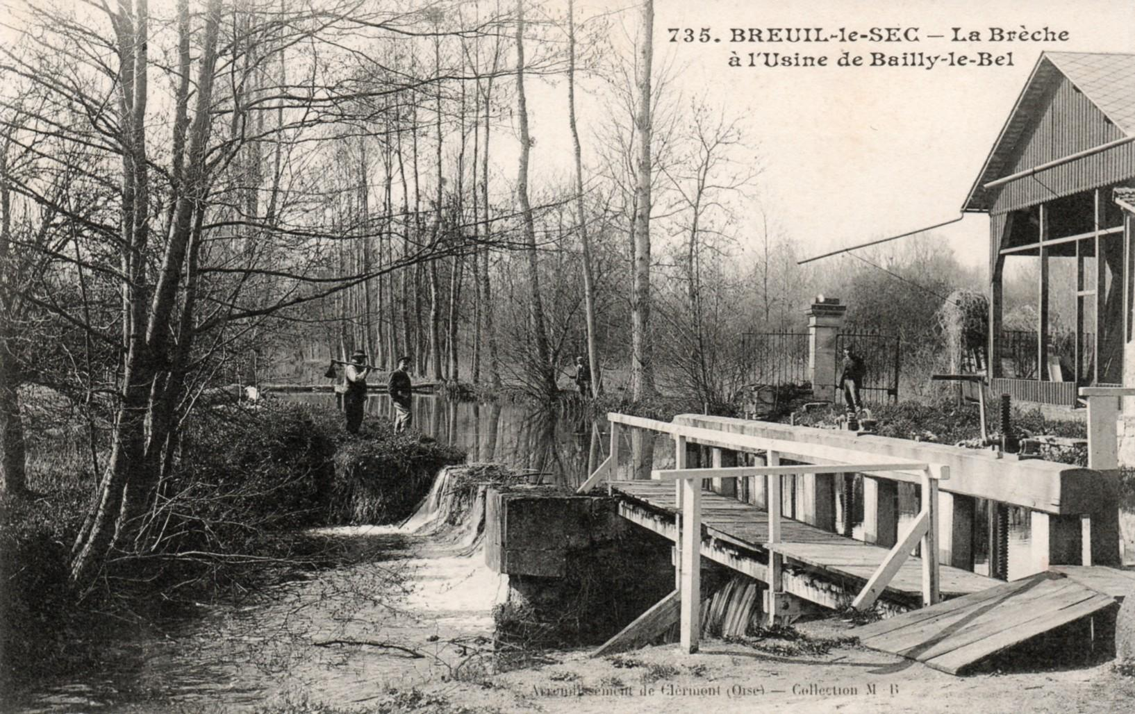 River La Breche at Breuil-le-sec (Oise - France) - vintage postcard - personal collection